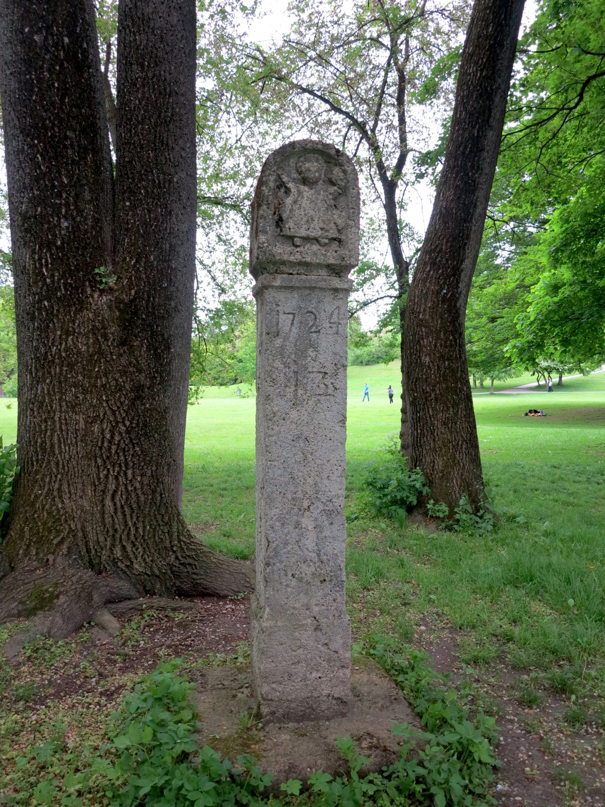 column "Burgfriedensäule Nr. 13" from the year 1724